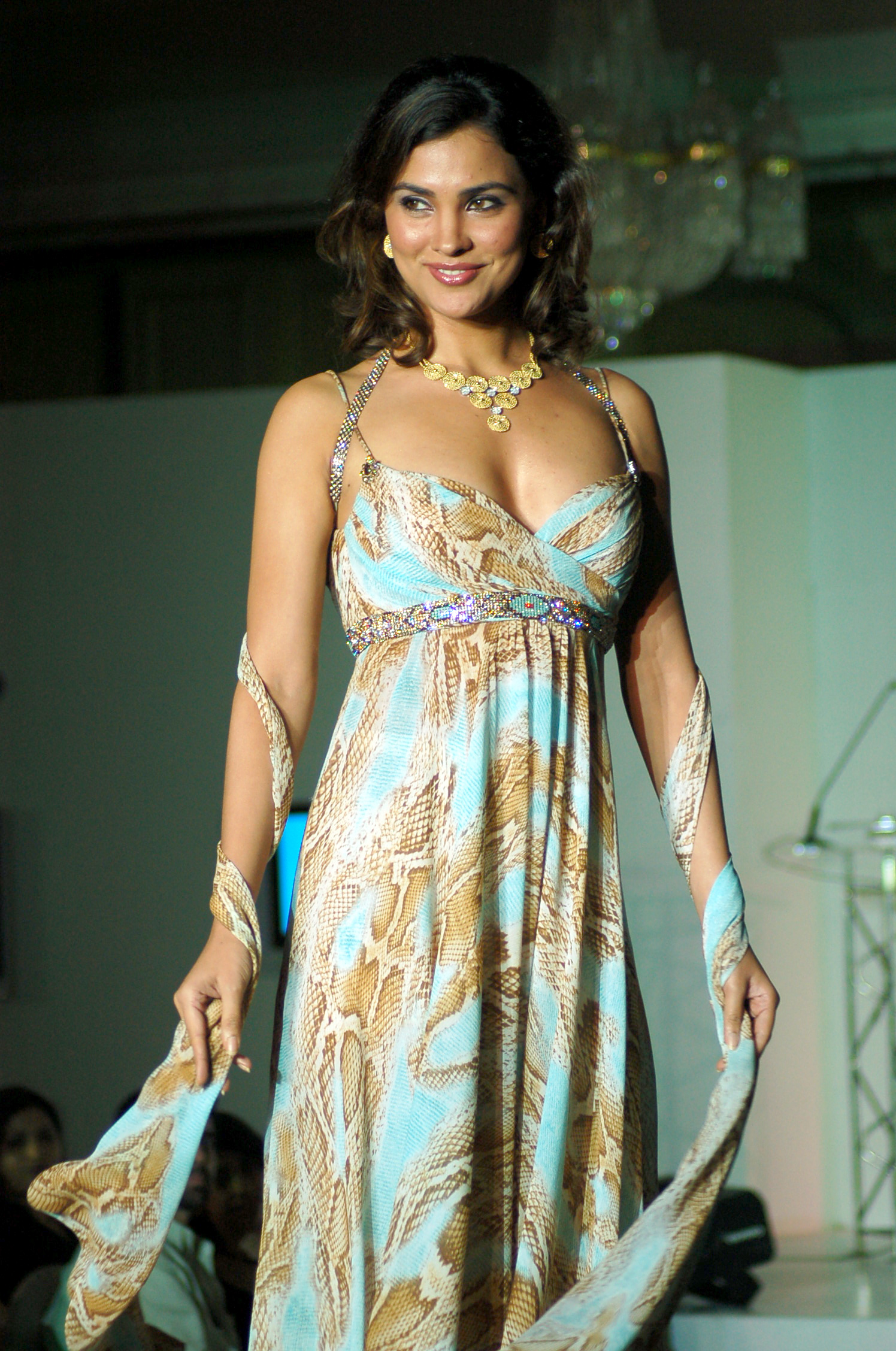 film actress,laradatta,fashion